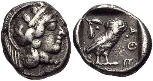 AR Drachma (13mm, 4.25 g). Athens. 454-404 BC. Helmeted head of Athena right / Owl standing right, head facing; olive sprig behind; all within incuse square.